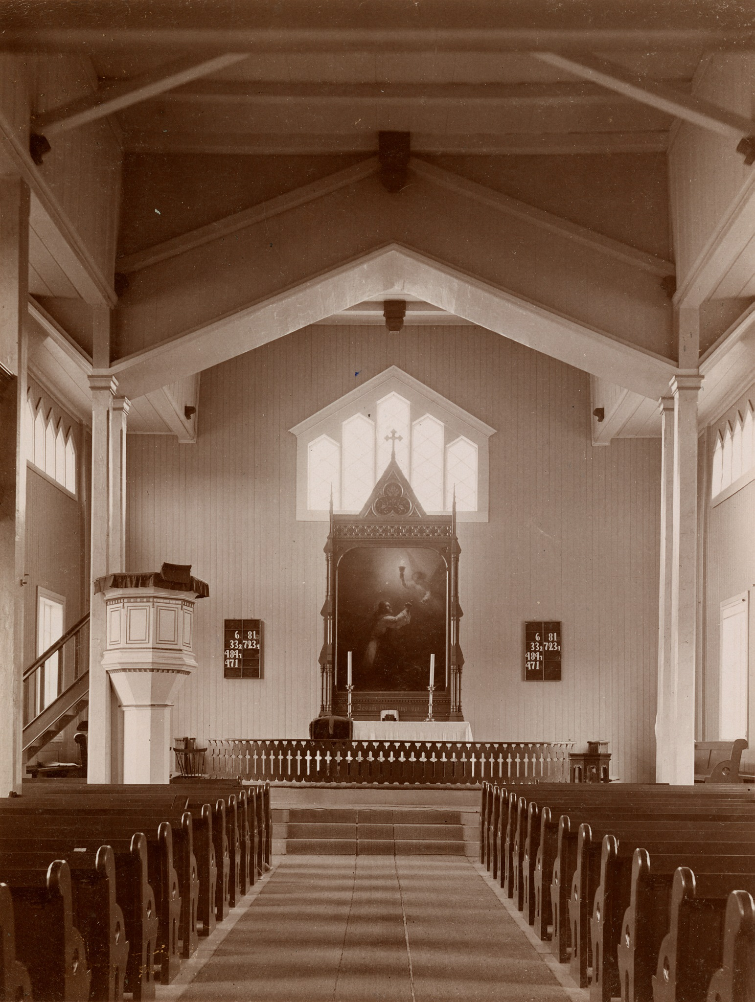 Interiør i Alvdal kirke. Kirken har siden fått vinduer med glassmalerier i korveggene. Foto: Christian Christensen Thomhav, fra Kulturminnebilder.no.